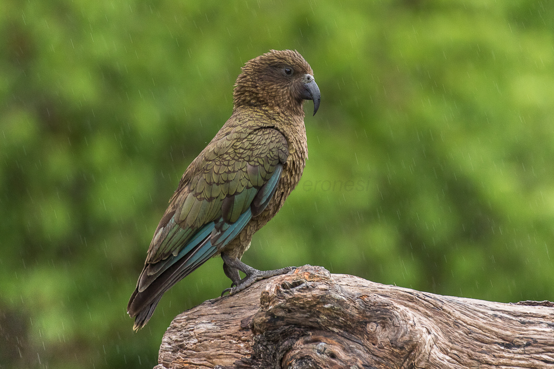 Kea - New Zealand_FJ0A6021